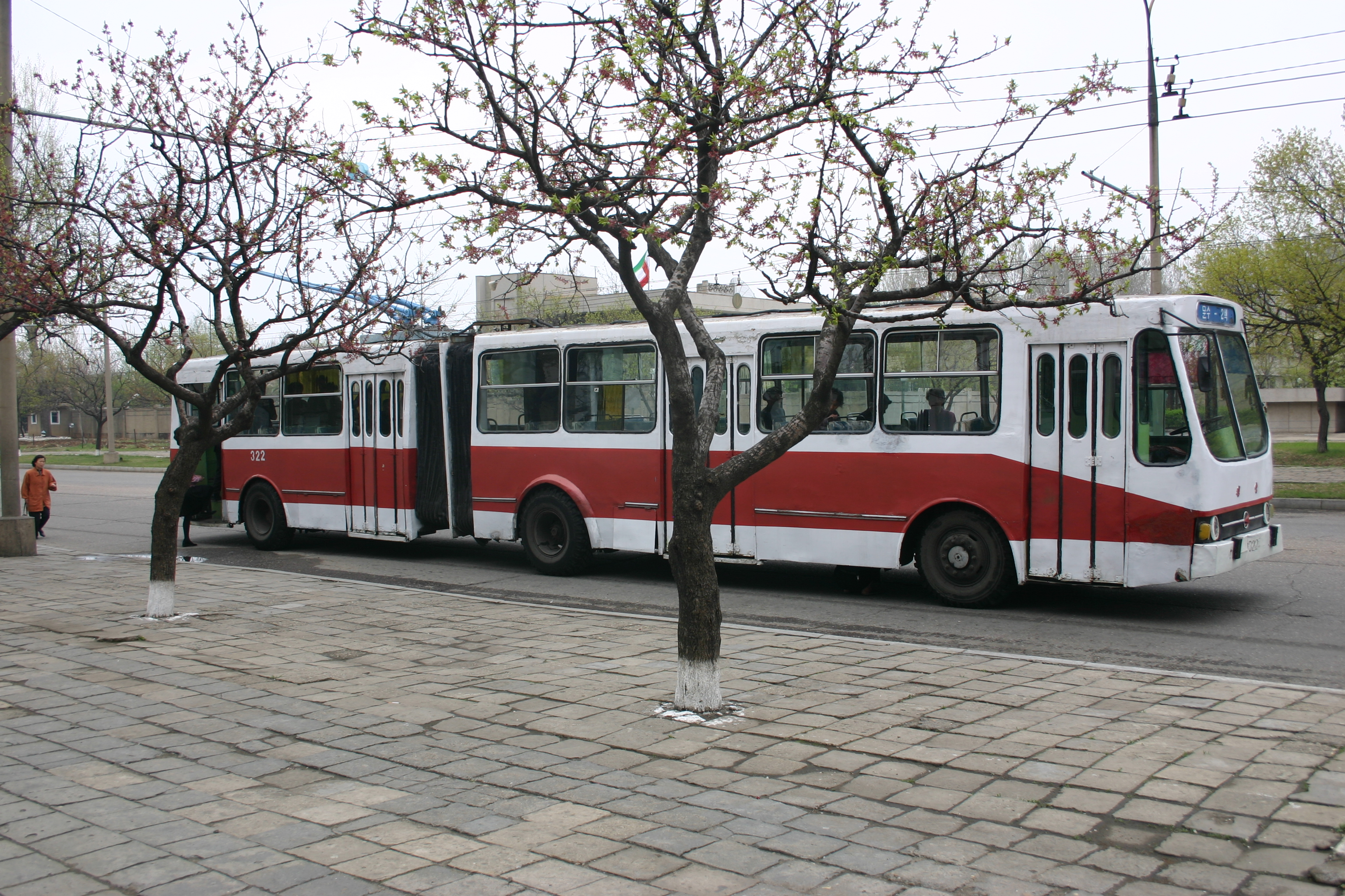 Public transport bus in Pyongyang, DPRK. The trolleybus is a North Korean made Pyongyang Trolleybus Works Chollima 90.